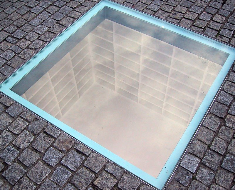 Monument to the May 10, 1933 Book burning: Designed by Micha Ullmann, empty bookshelves, enough to hold all 20,000 burned books, visible below the pavement of Bebelplatz in Berlin, Germany Asiir 14:01, 22 February 2007 (UTC)